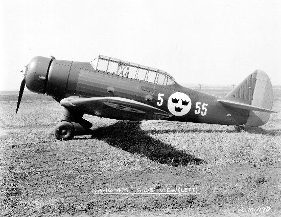 Swedish Flygvapnet Sk 14 North American NA-16-4M or NA-31 5-55